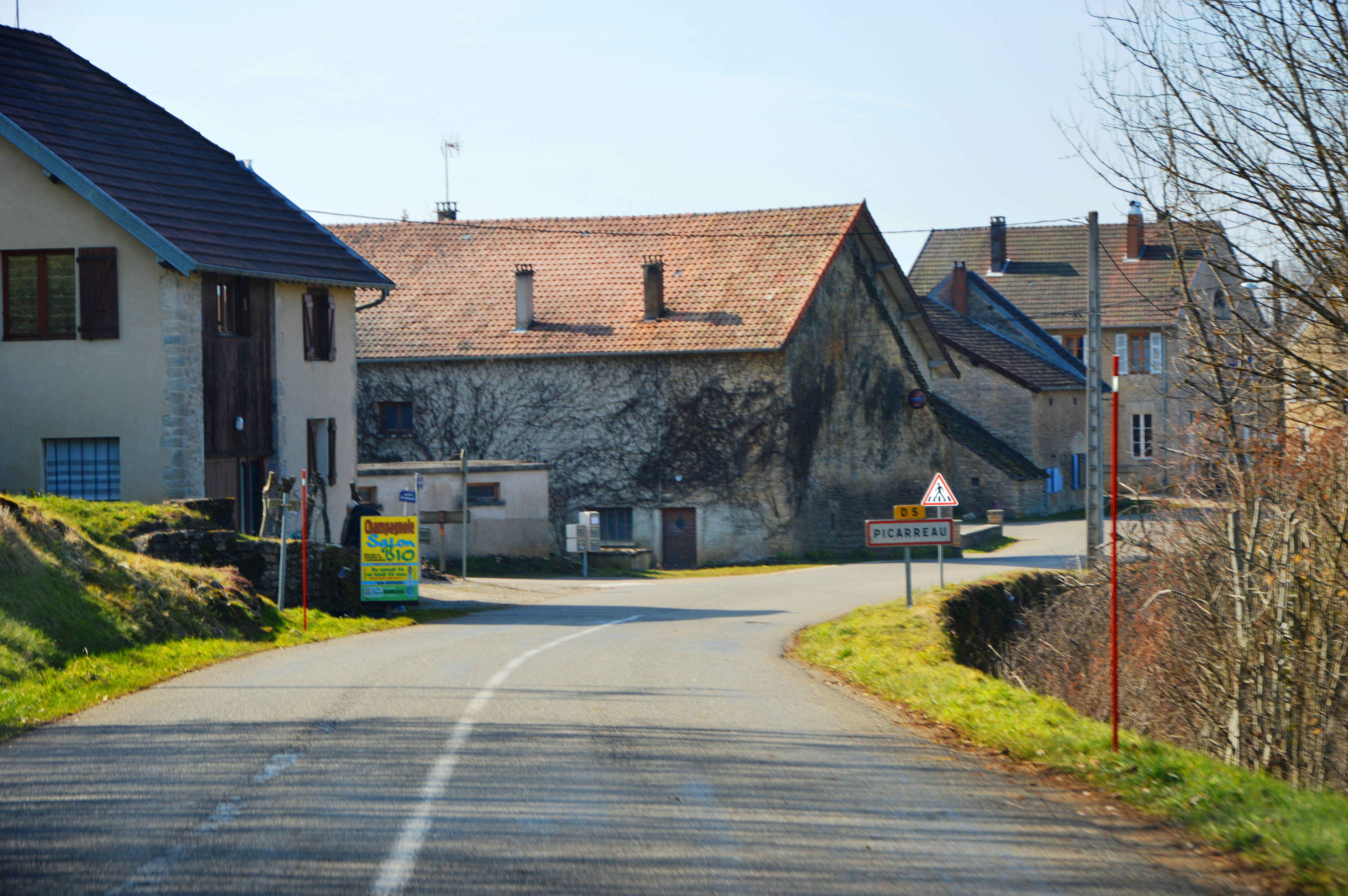 Picarreau: The entrance of the village. Photo taken 2016 on the Route départementale D5 (39), or RD5 (39).